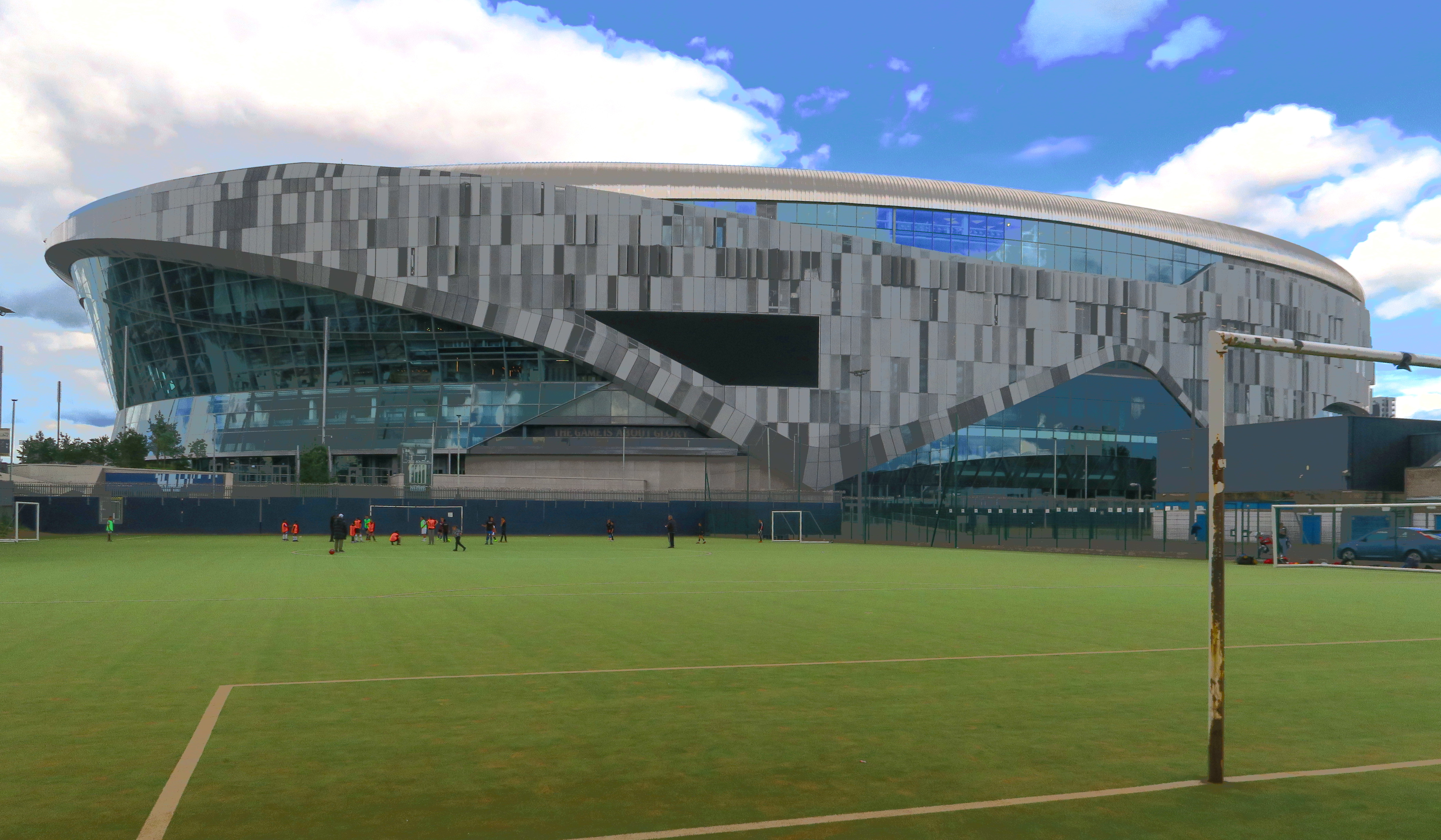 Tottenham Hotspur Stadium June 2019, view from east